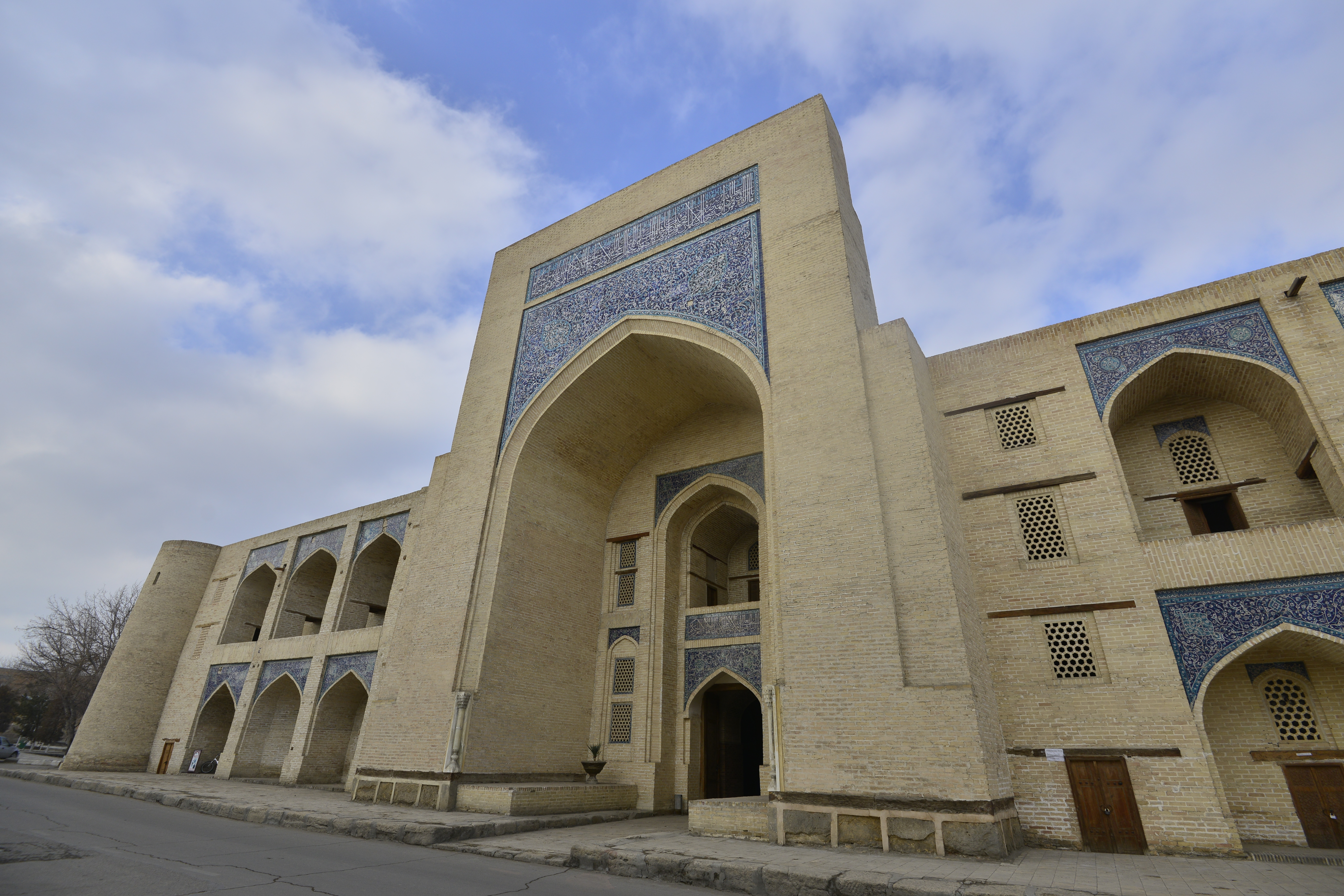 Kukeldash Madrasah, Lyab-i Hauz